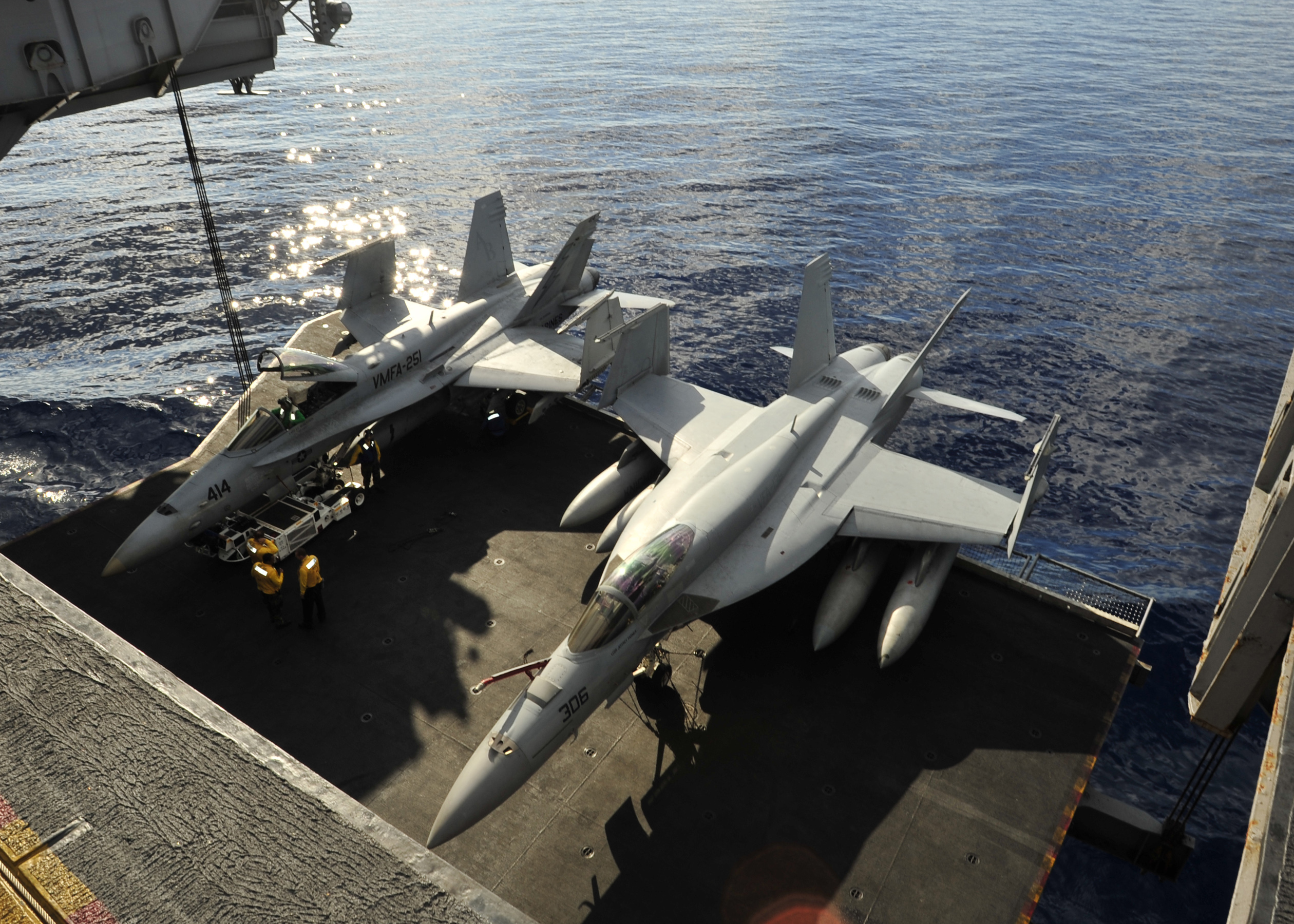 ATLANTIC OCEAN (Oct. 19, 2010) An F/A-18C Hornet assigned to the Thunderbolts of Marine Strike Fighter Squadron (VMFA) 251, left, and an F/A-18E Super Hornet assigned to the Knighthawks of Strike Fighter Squadron (VFA) 136 are lowered on an aircraft elevator to the hangar bay of the aircraft carrier USS Enterprise (CVN 65). The Enterprise Carrier Strike Group is conducting a Composite Training Unit Exercise in preparation for an upcoming deployment. (U.S. Navy photo by Mass Communication Specialist Seaman Jared M. King/Released)